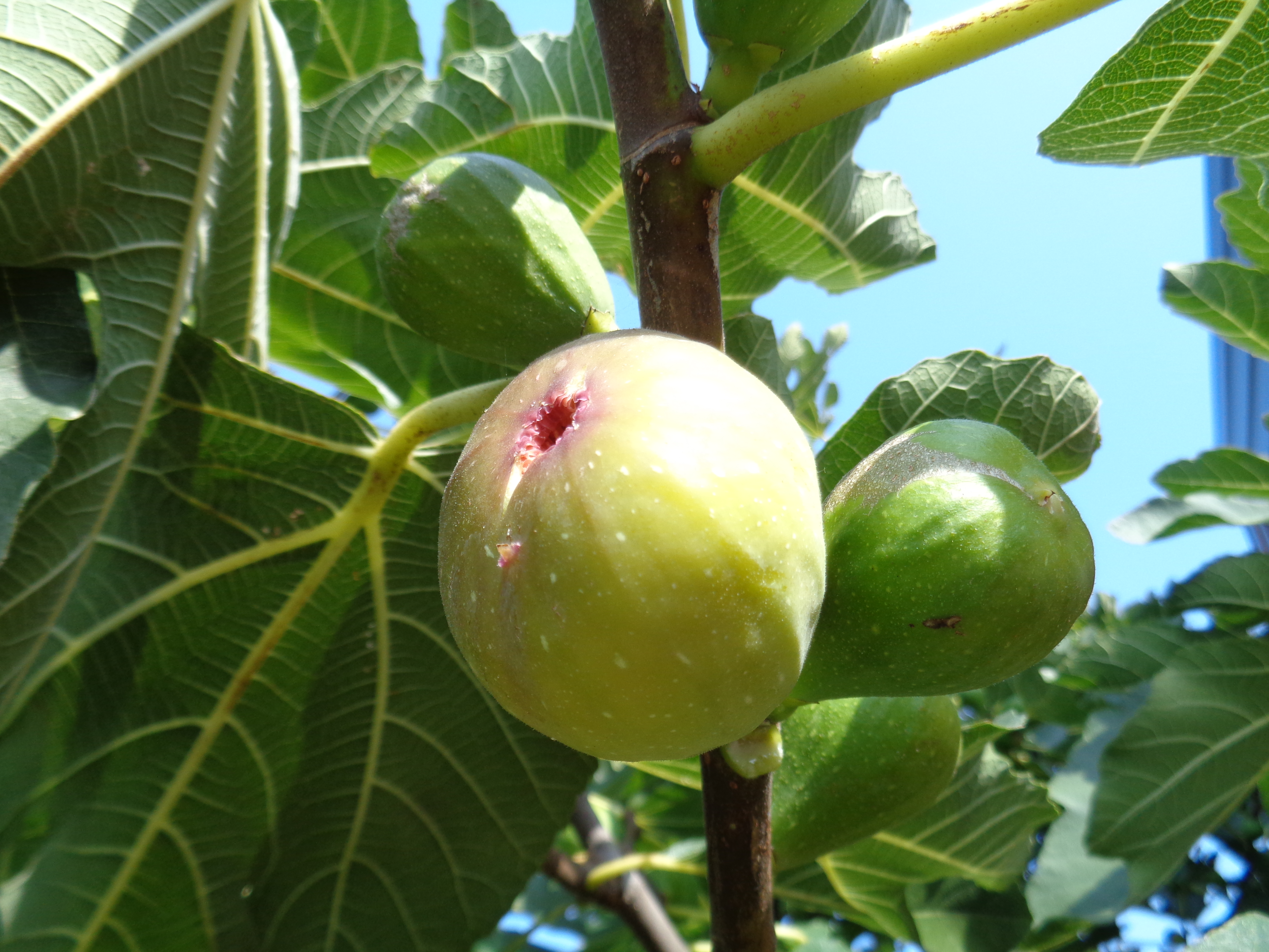 Figs on a branch, grown in Croatia